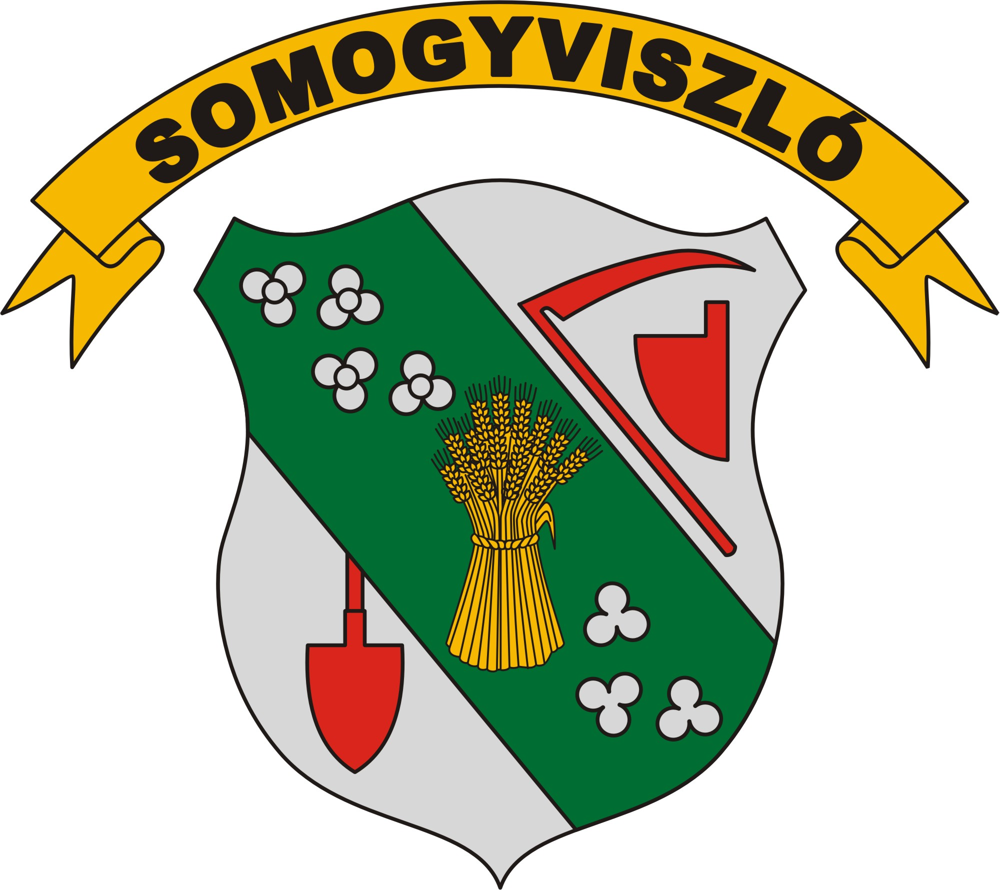 Coat of arms of Somogyviszló, Hungary